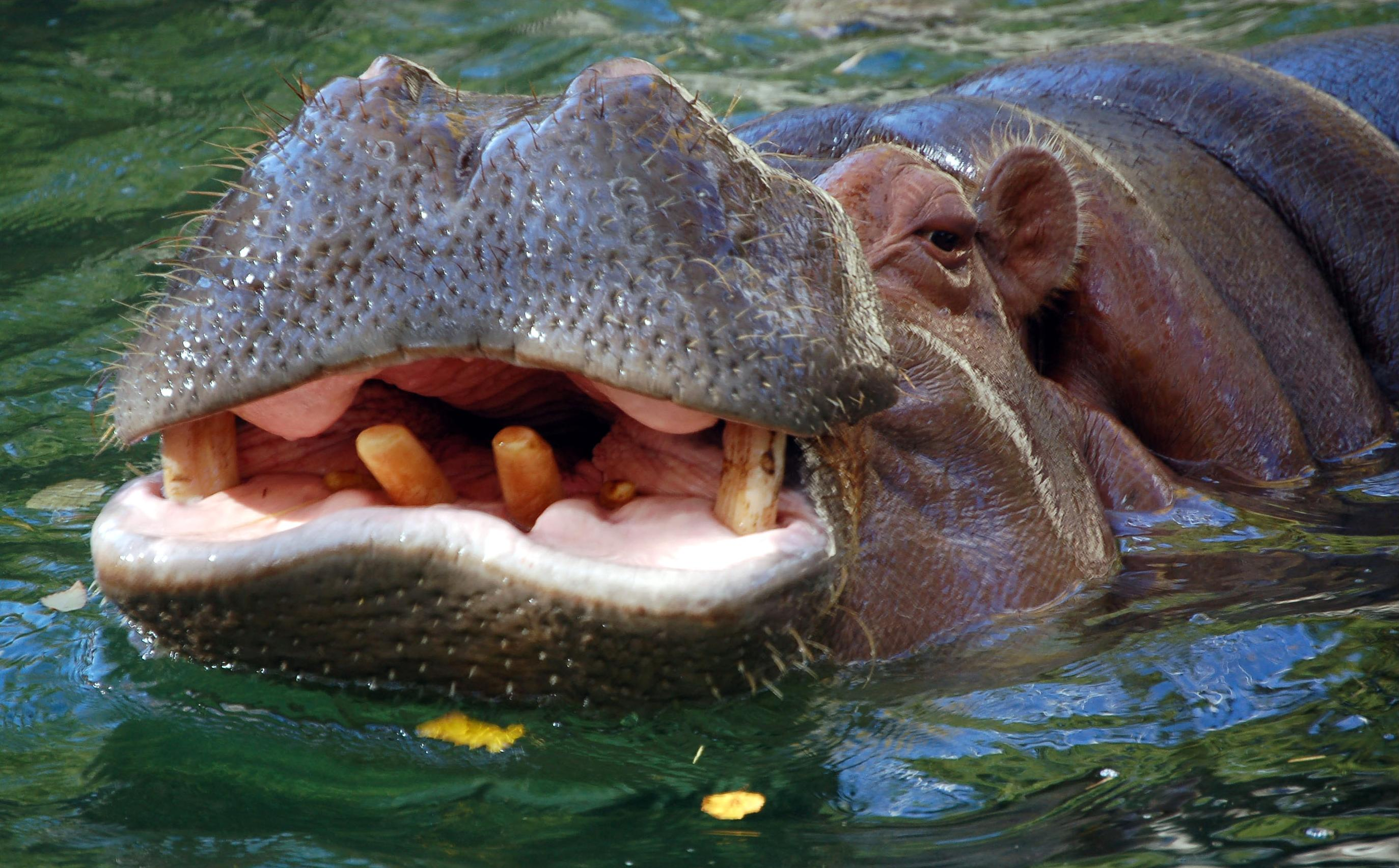 Hippopotamus (Hippopotamus amphibius) from Philadelphia Zoo